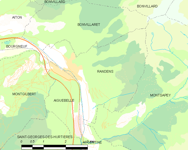 Map of French municipality